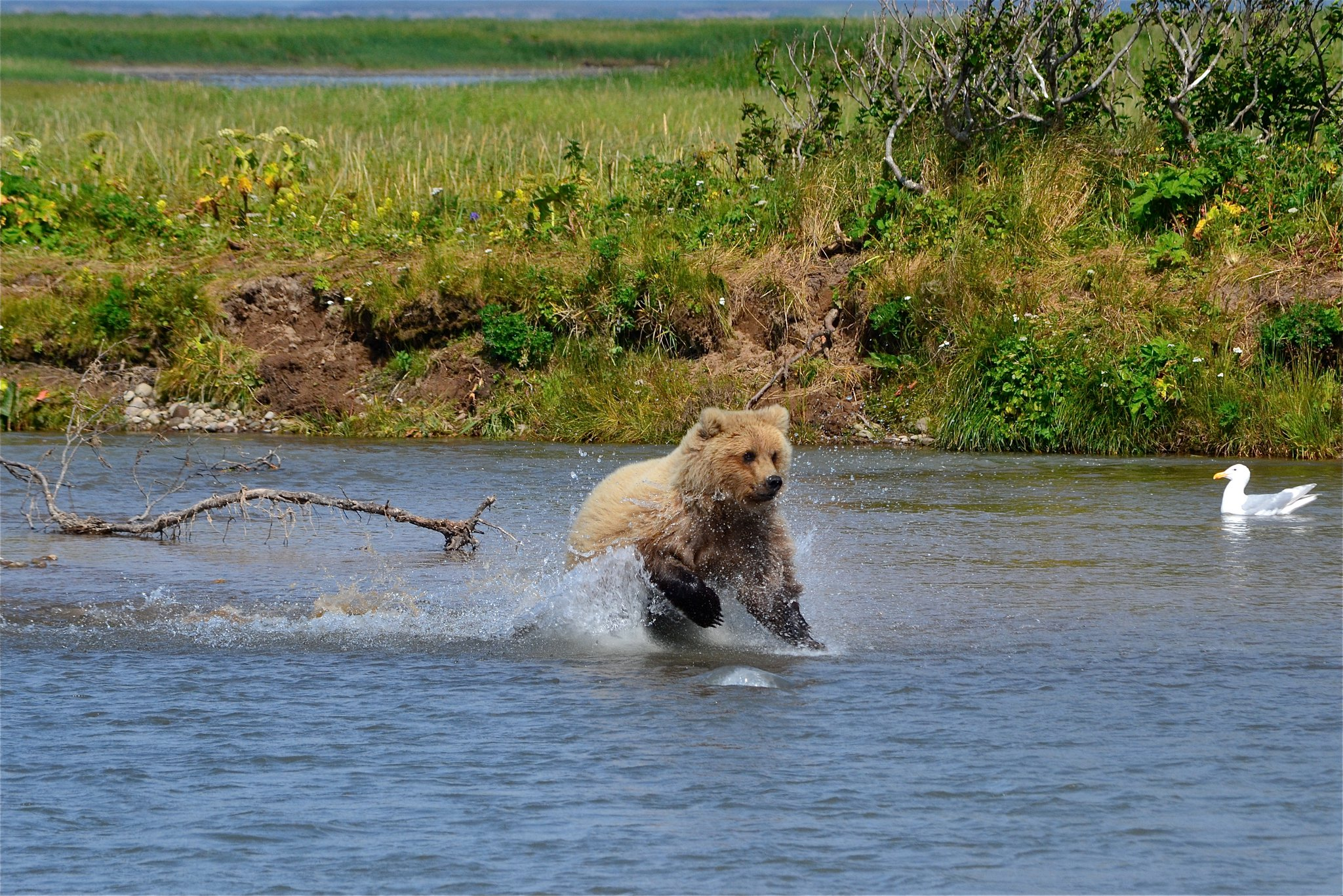 Russell Creek, Cold Bay, AK Photo: K. Mueller, USFWS